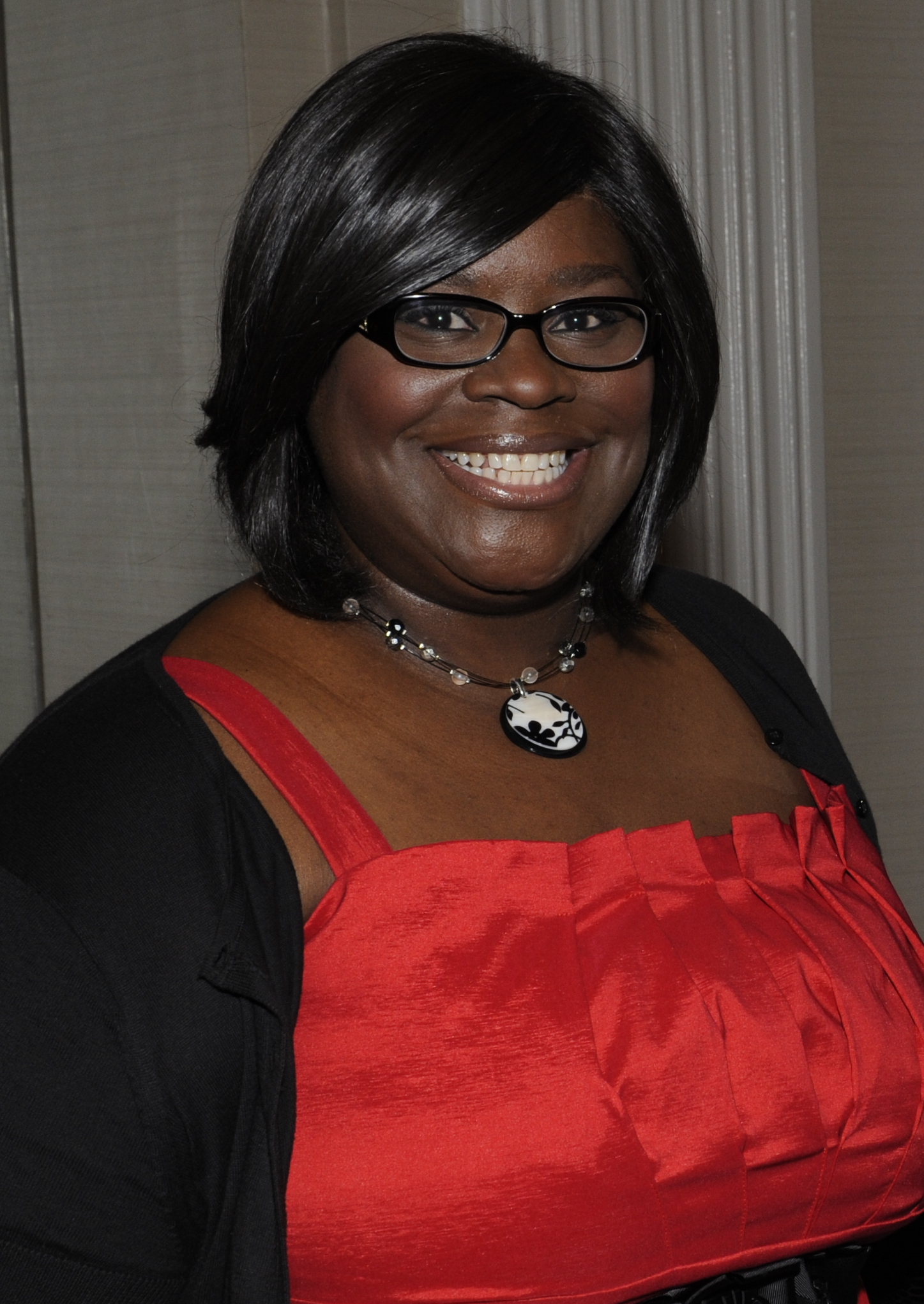 PHOTO CREDIT: ANDERS KRUSBERG / PEABODY AWARDS 71st Annual Peabody Awards Luncheon Waldorf=Astoria Hotel May 21, 2012